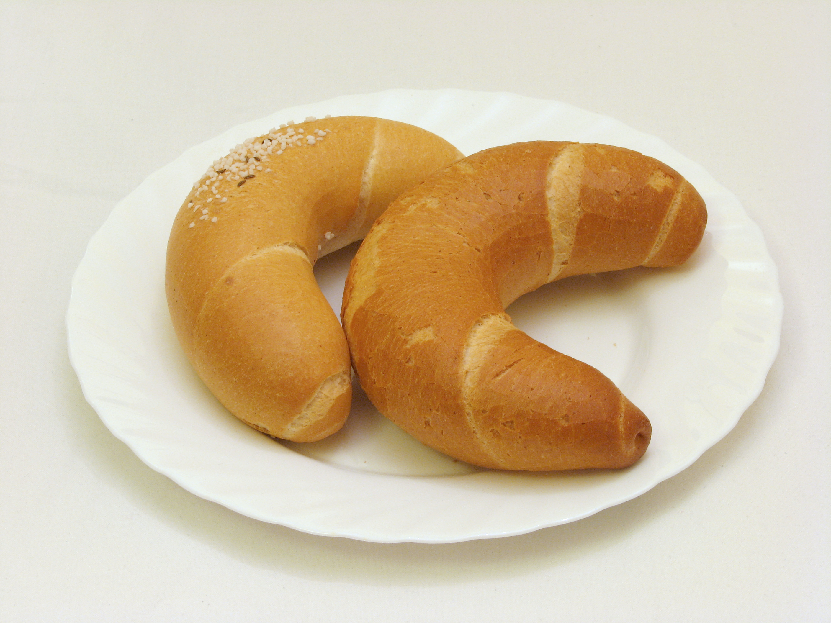 Kilfi, a traditional Hungarian pastry. The left one is salted.